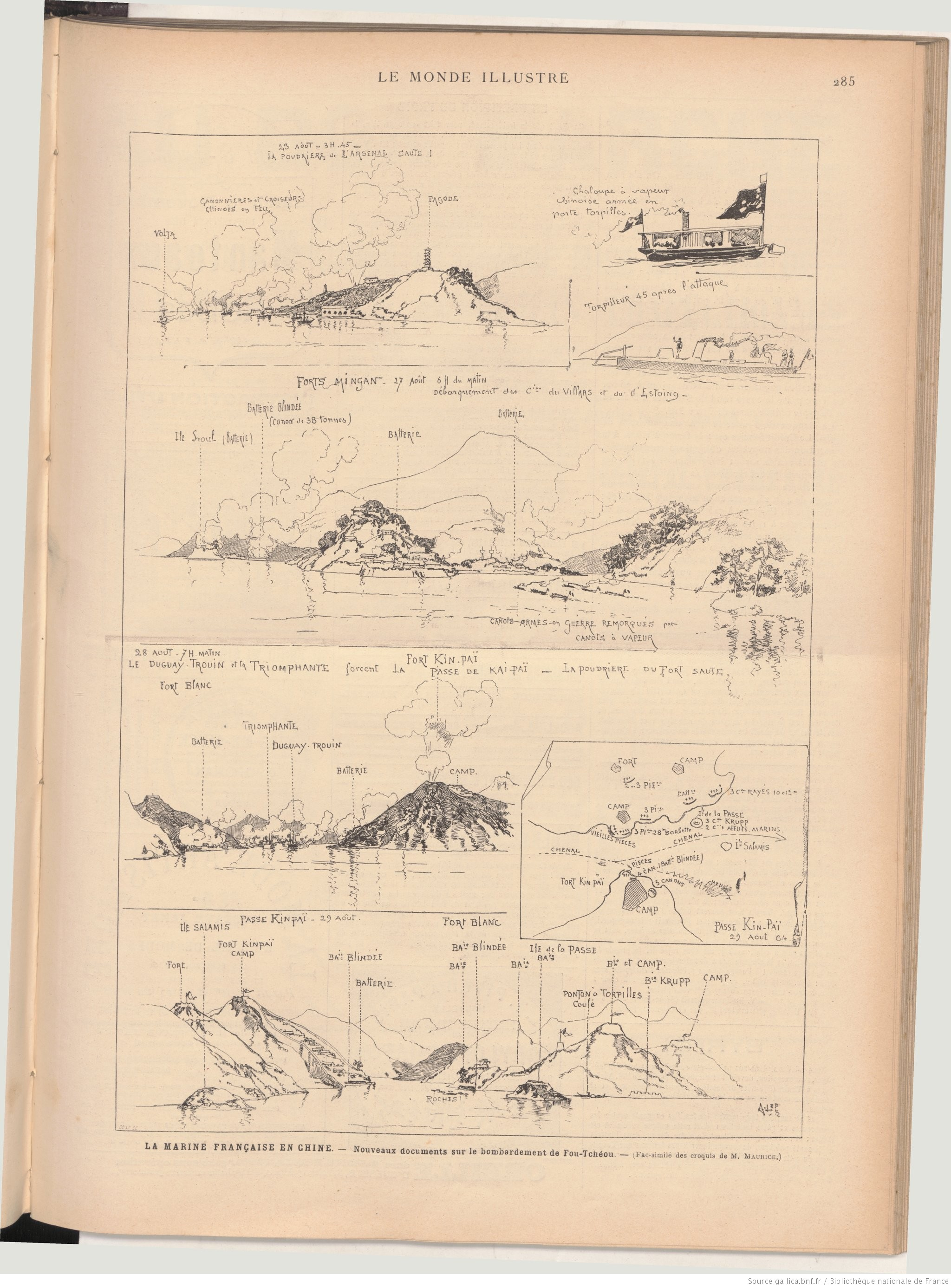 New documents on the bombardment of Foochow - facsimile of Mr. Maurice's sketches